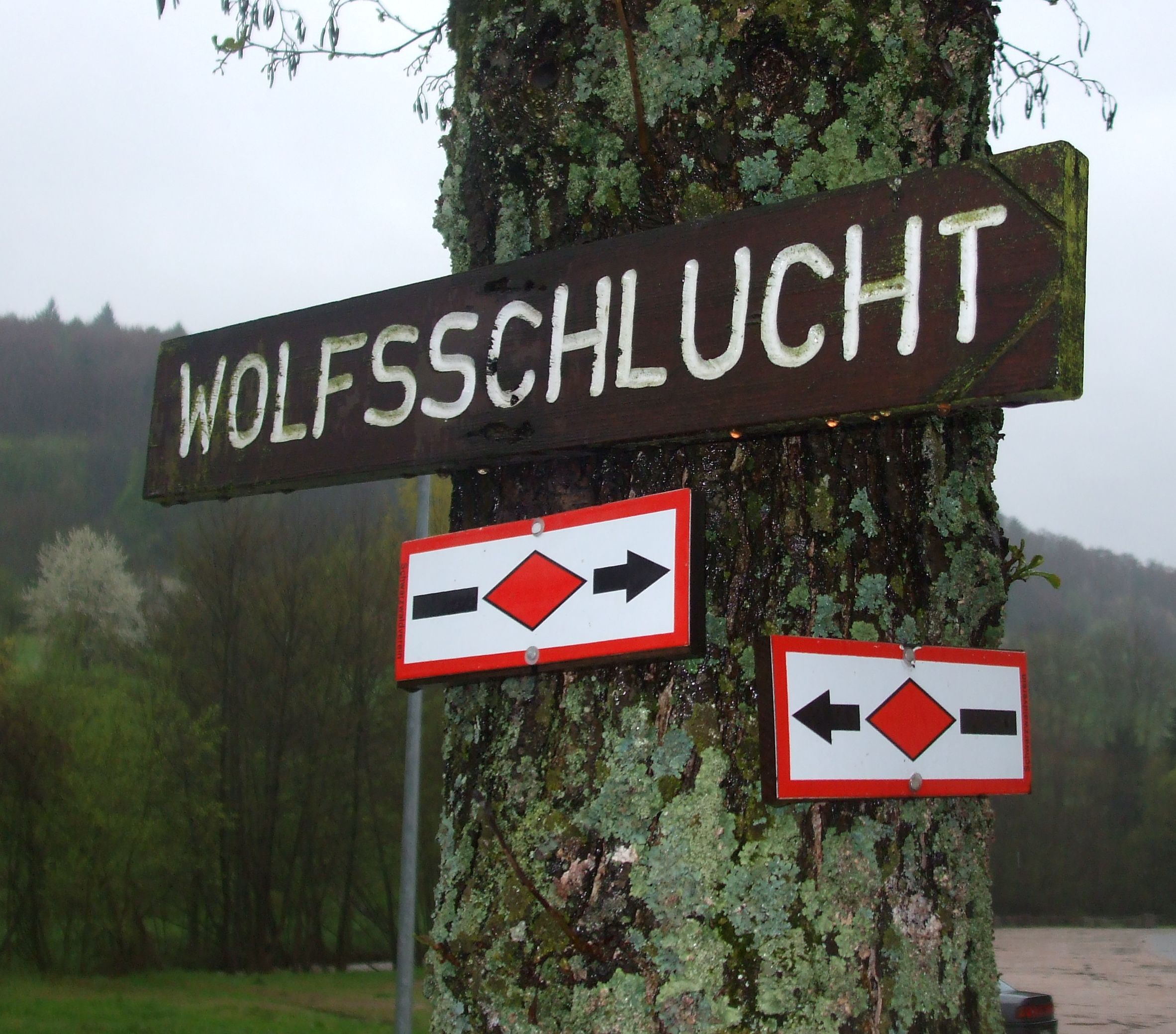 Trail marker for the Westweg, a long distance trail through the Black Forest, as it leaves Kandern and enters the Wolfsschlucht.